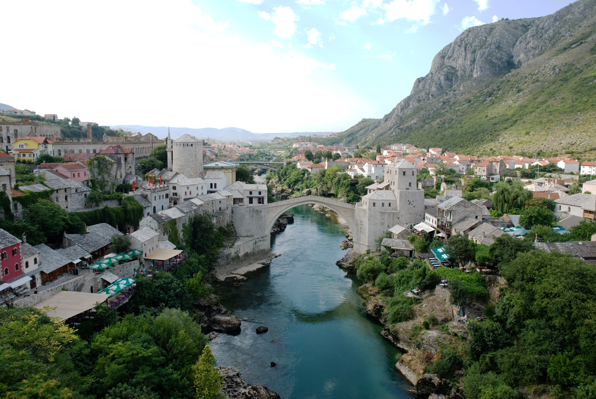 Mostar - Old Town Panorama. The picture was taken from this minaret, which is just opposit the bridge looking on the same part of the river.